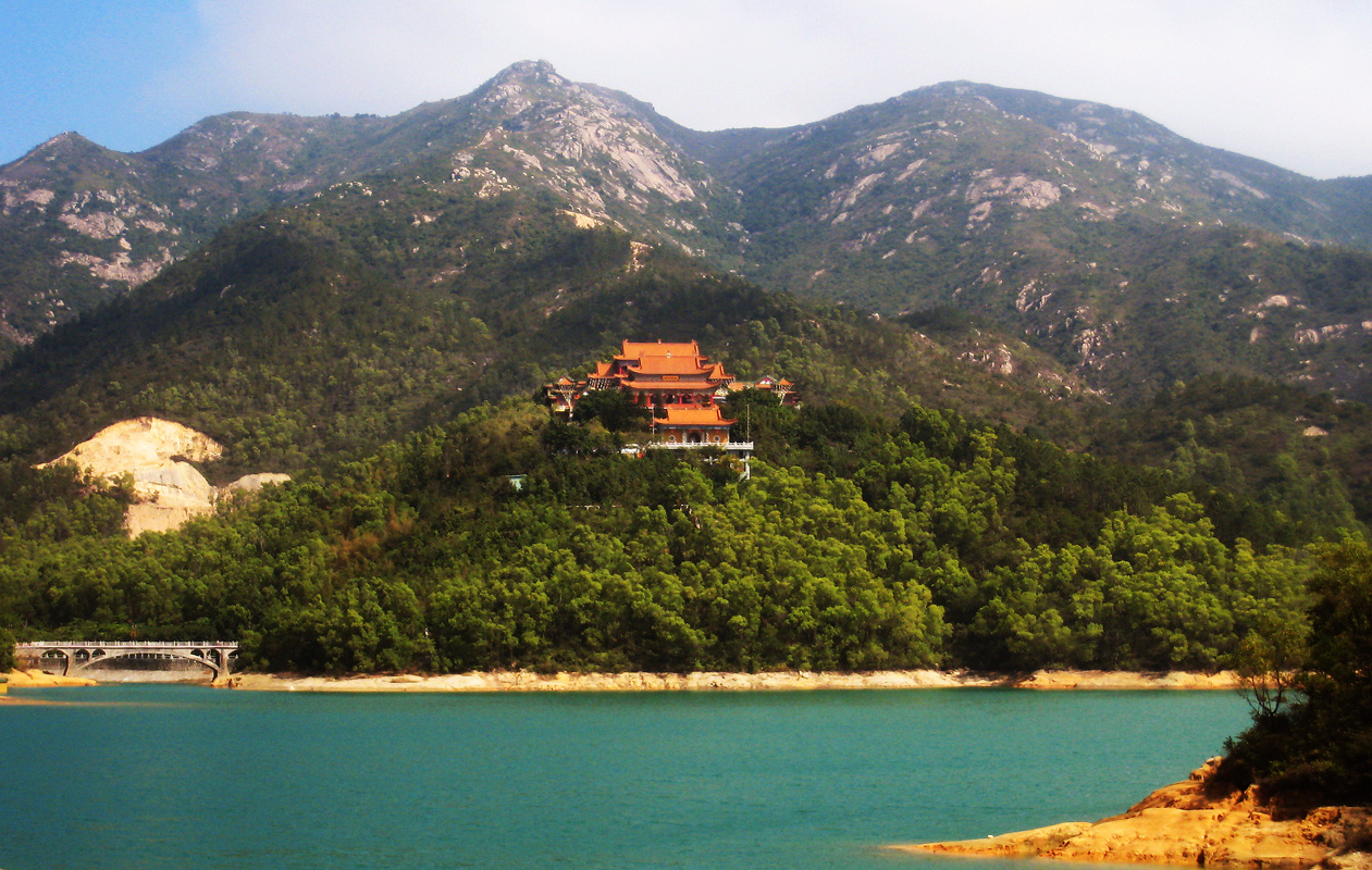 Jintai Temple in Doumen District of Zhuhai, Guangdong, China. A general view from the special viewing spot across the lake.